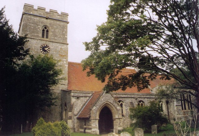 Church of England parish church of St Leonard, Watlington, Oxfordshire: view from the south